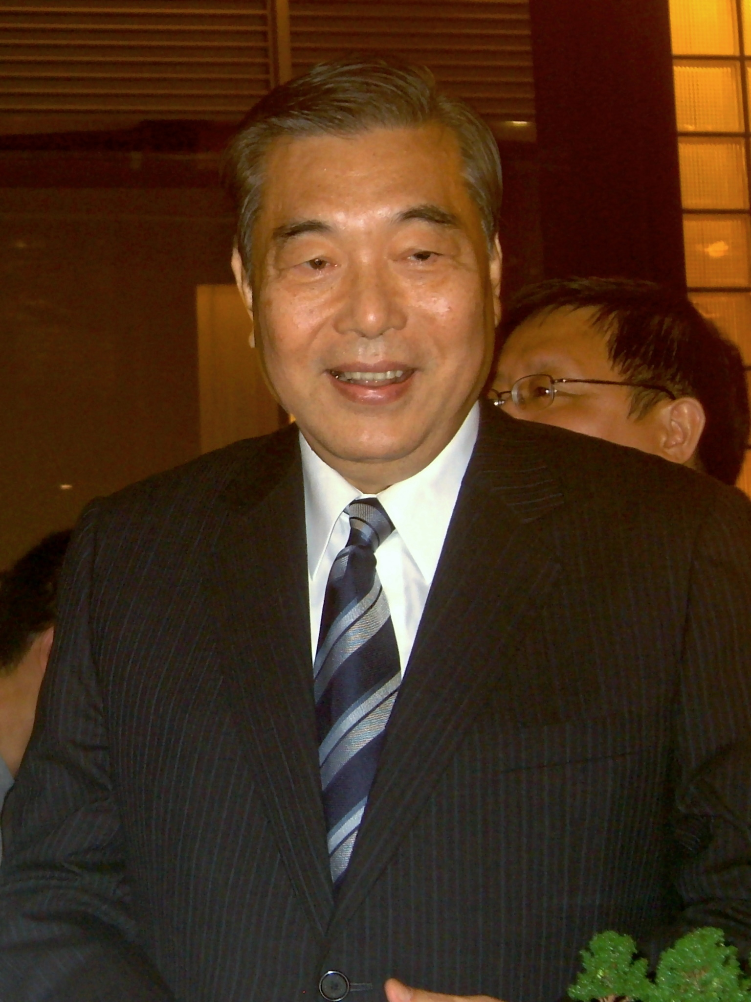 2010 Shanghai Expo Taipei Preview Show - Chih-kang Wang, Chairman of TAITRA.